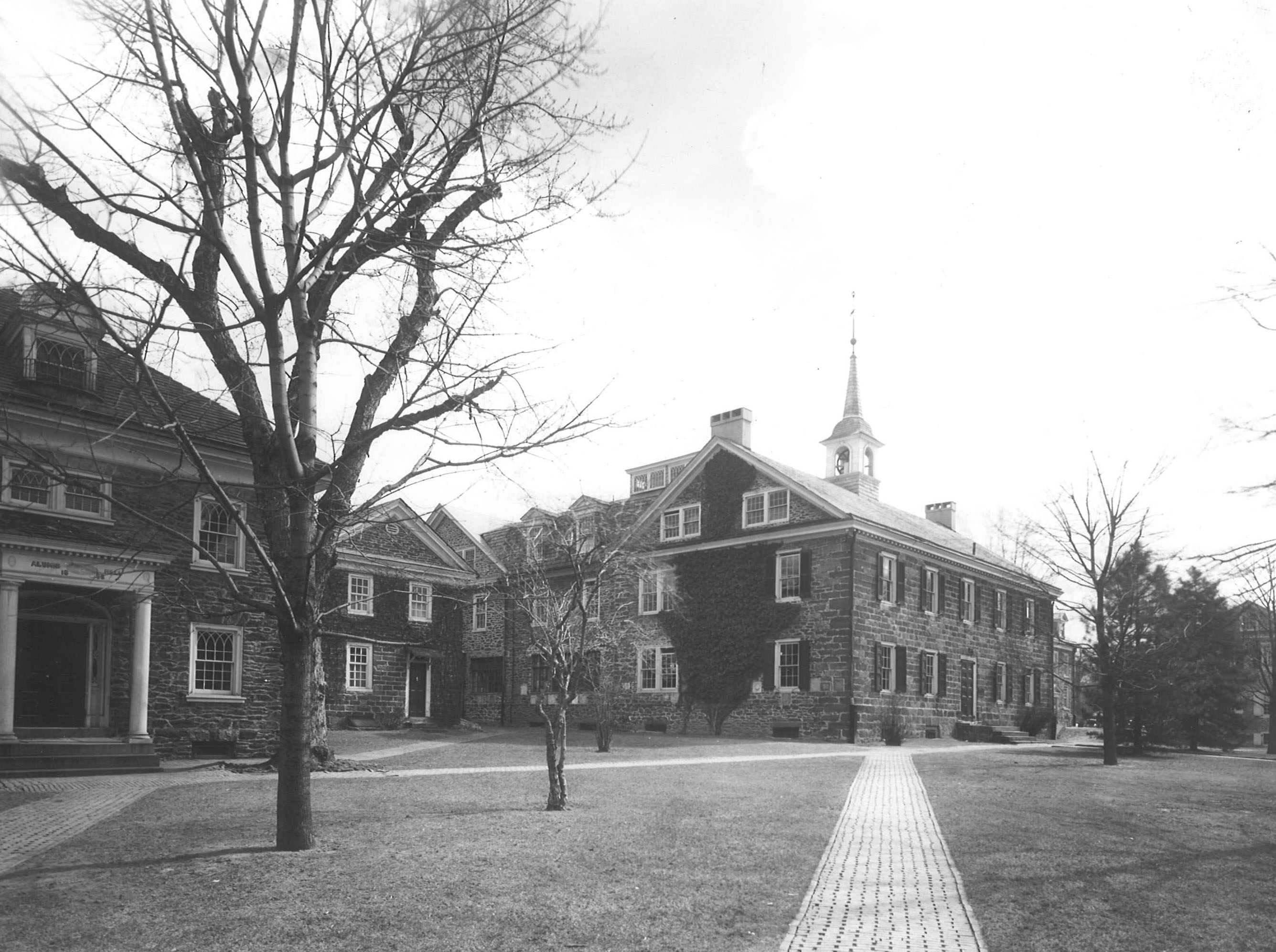 A view of the Germantown Campus of Germantown Academy, 1954.